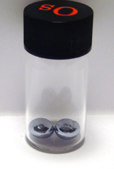 Photograph of two 5-gram osmium pellets from the Justin Urgitis collection. This picture was taken by a digital camera and is of samples from my own personal collection.